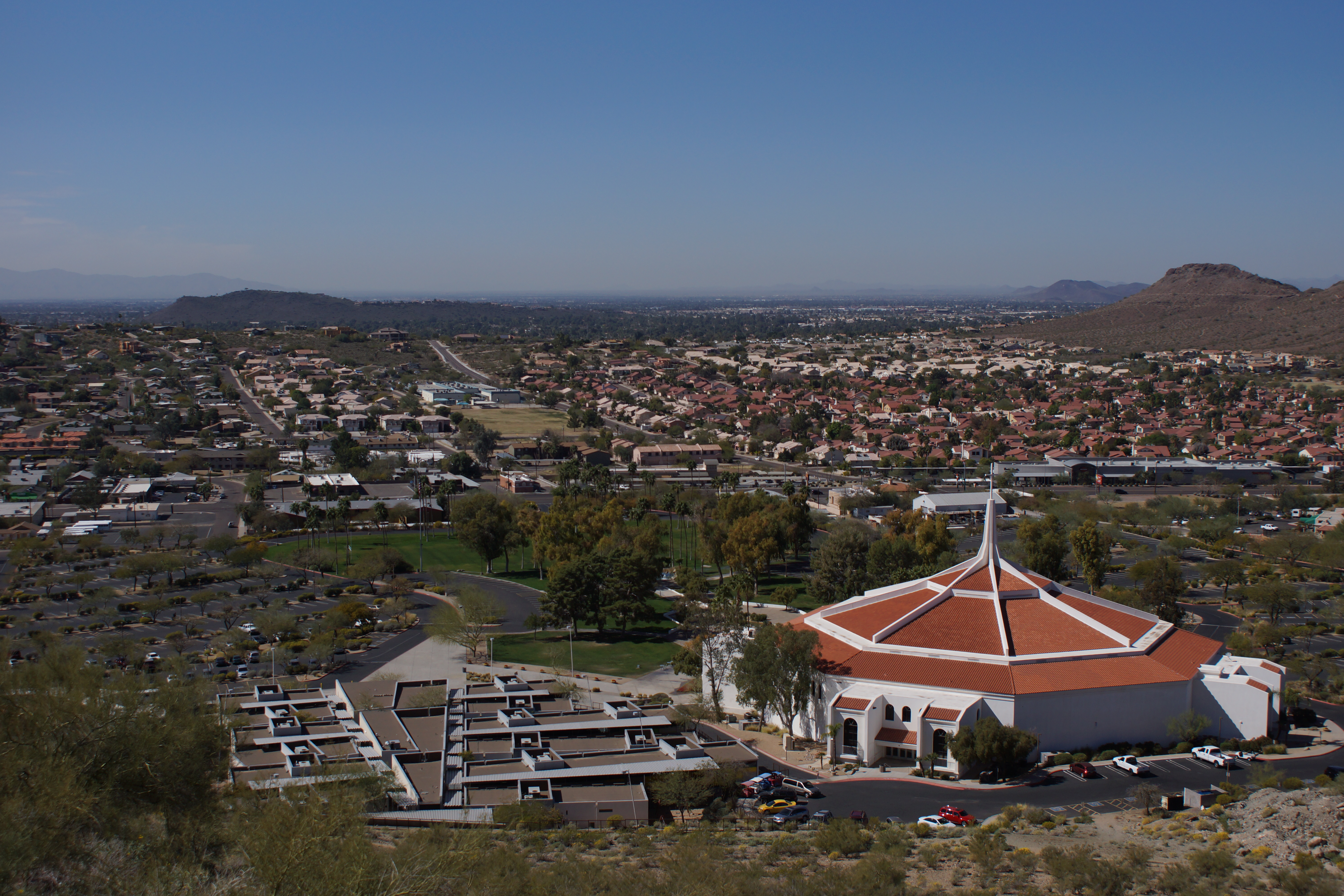 Dream City Church Phoenix Campus in 2014.